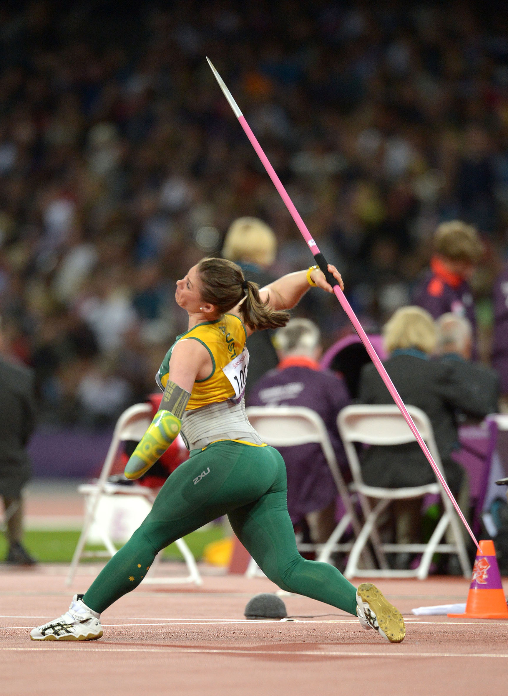 Photograph of Australian Paralympic team member Madeleine Hogan at the 2012 Summer Paralympic Games in London